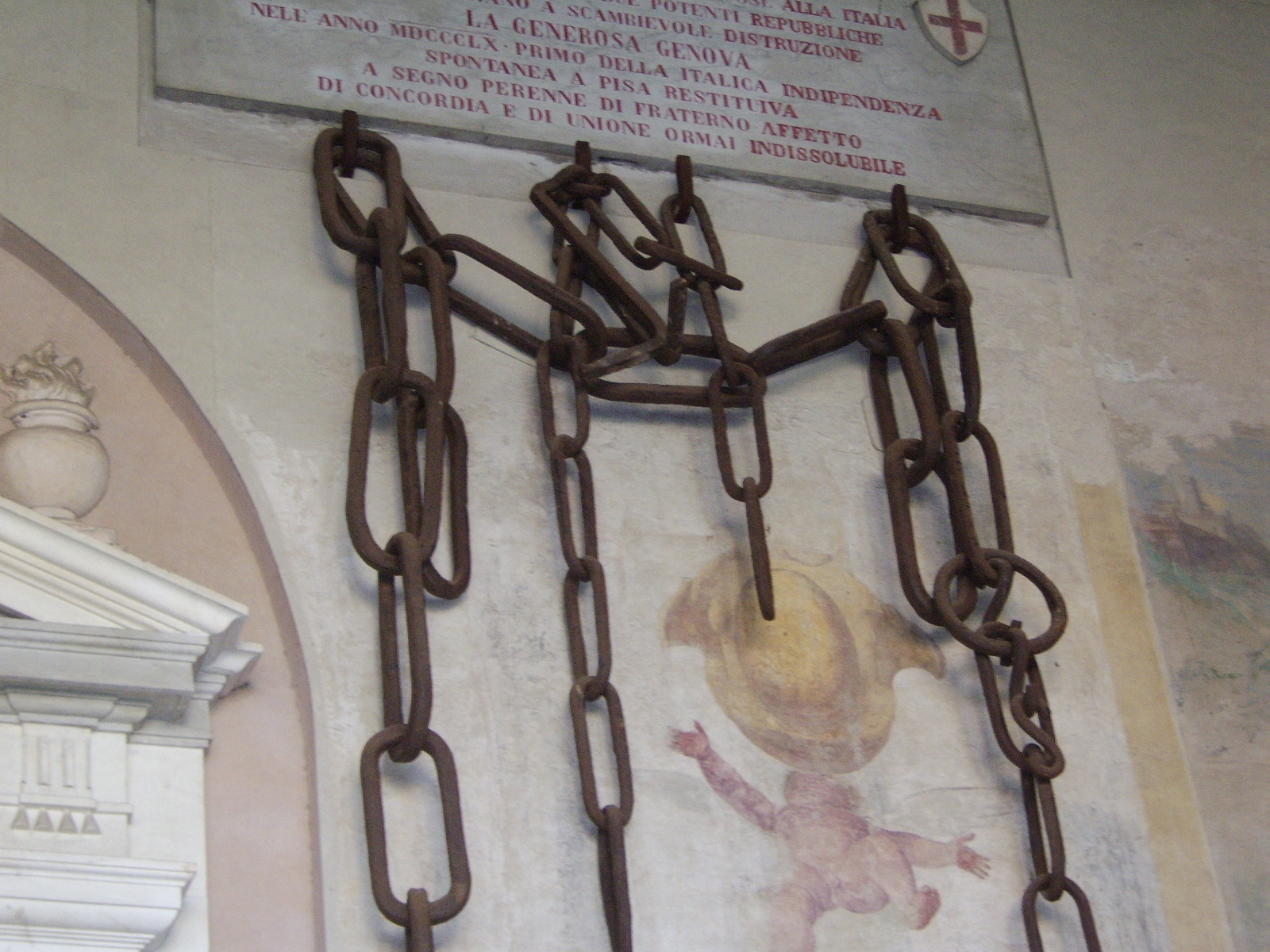 Ancient harbor chain in Campo Santo, Pisa, Italy (captured by Genoa in 1290, restored in 1860).